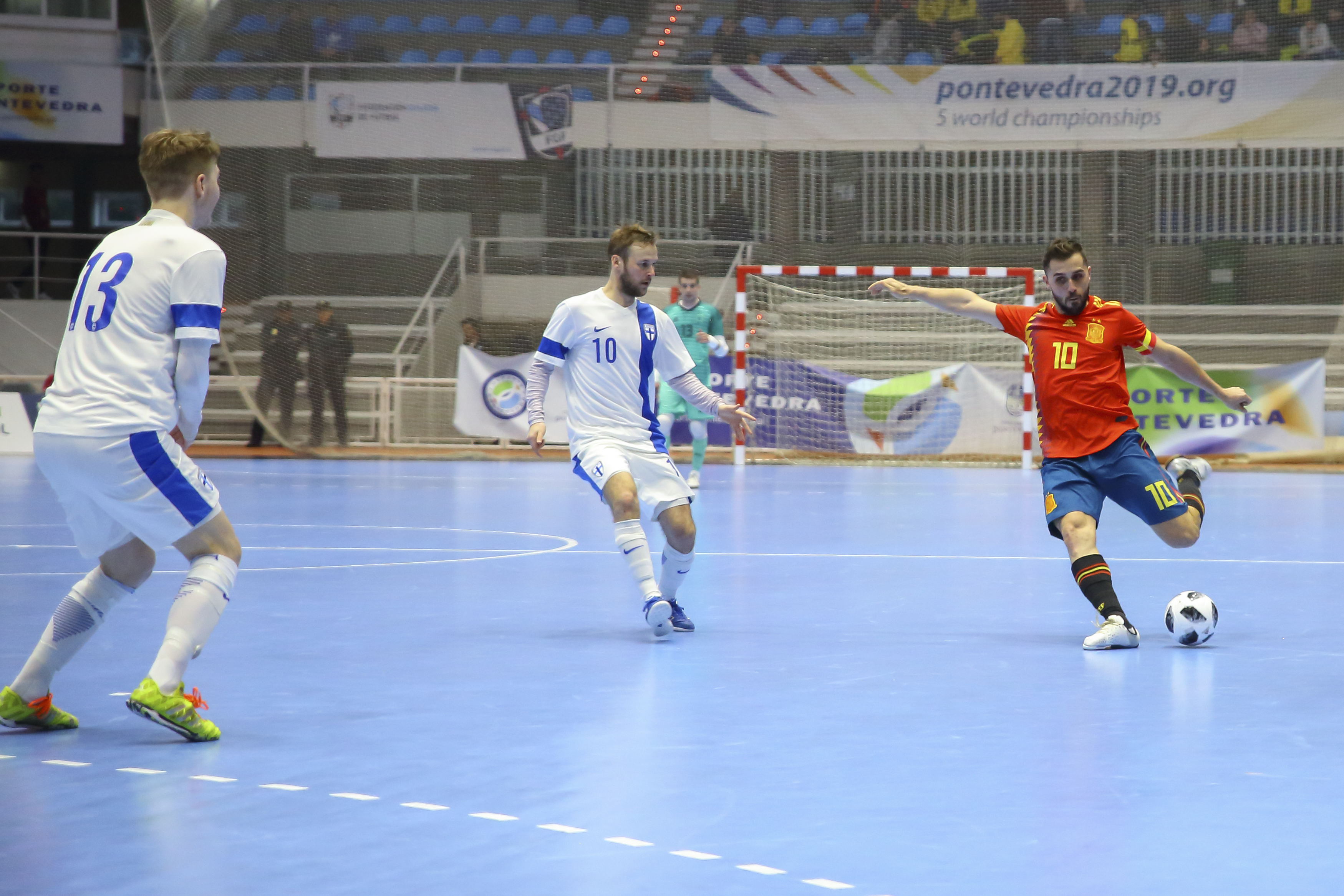 Futsal international friendly match between Spain and Finland at Pabellon Municipal de Pontevedra on April 2, 2018 in Pontevedra, Spain.